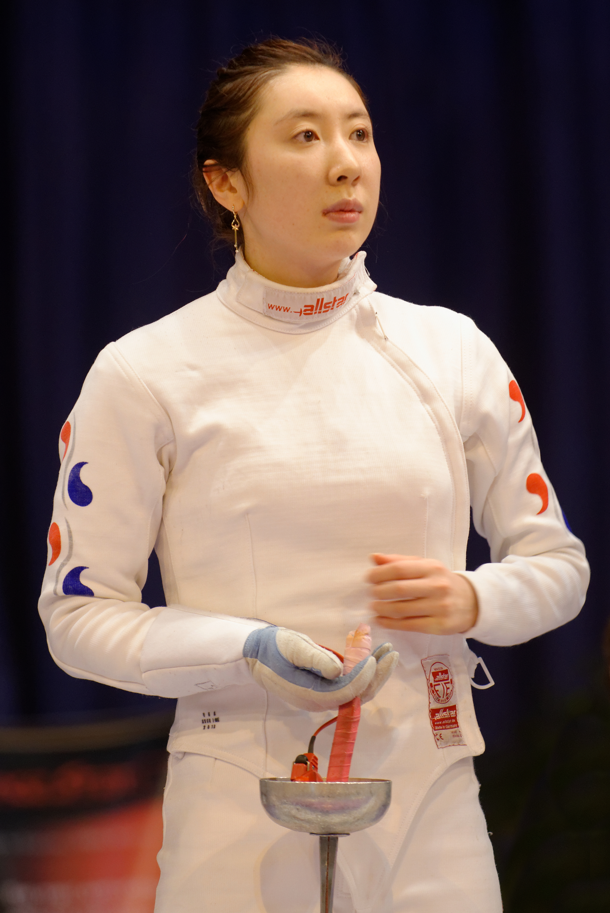 Shin A-Lam at the Challenge international de Saint-Maur 2013, women's épée World Cup tournament.